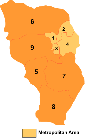 Map of Hohhot in Inner Mongolia